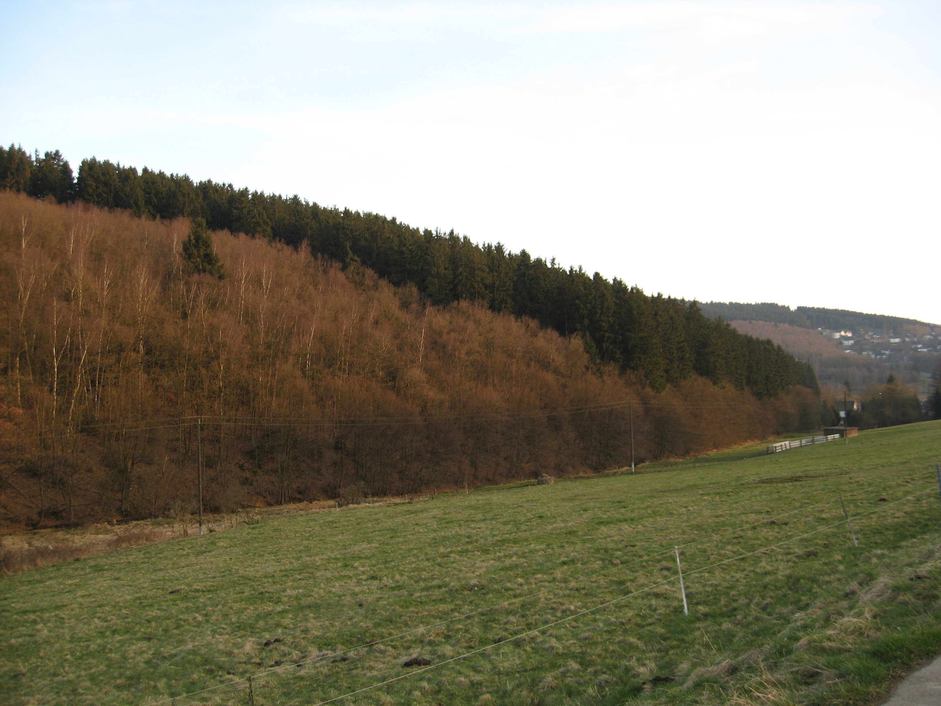 The "Stahlseifer Kopf" seen from "Heinrichglücker Weg".